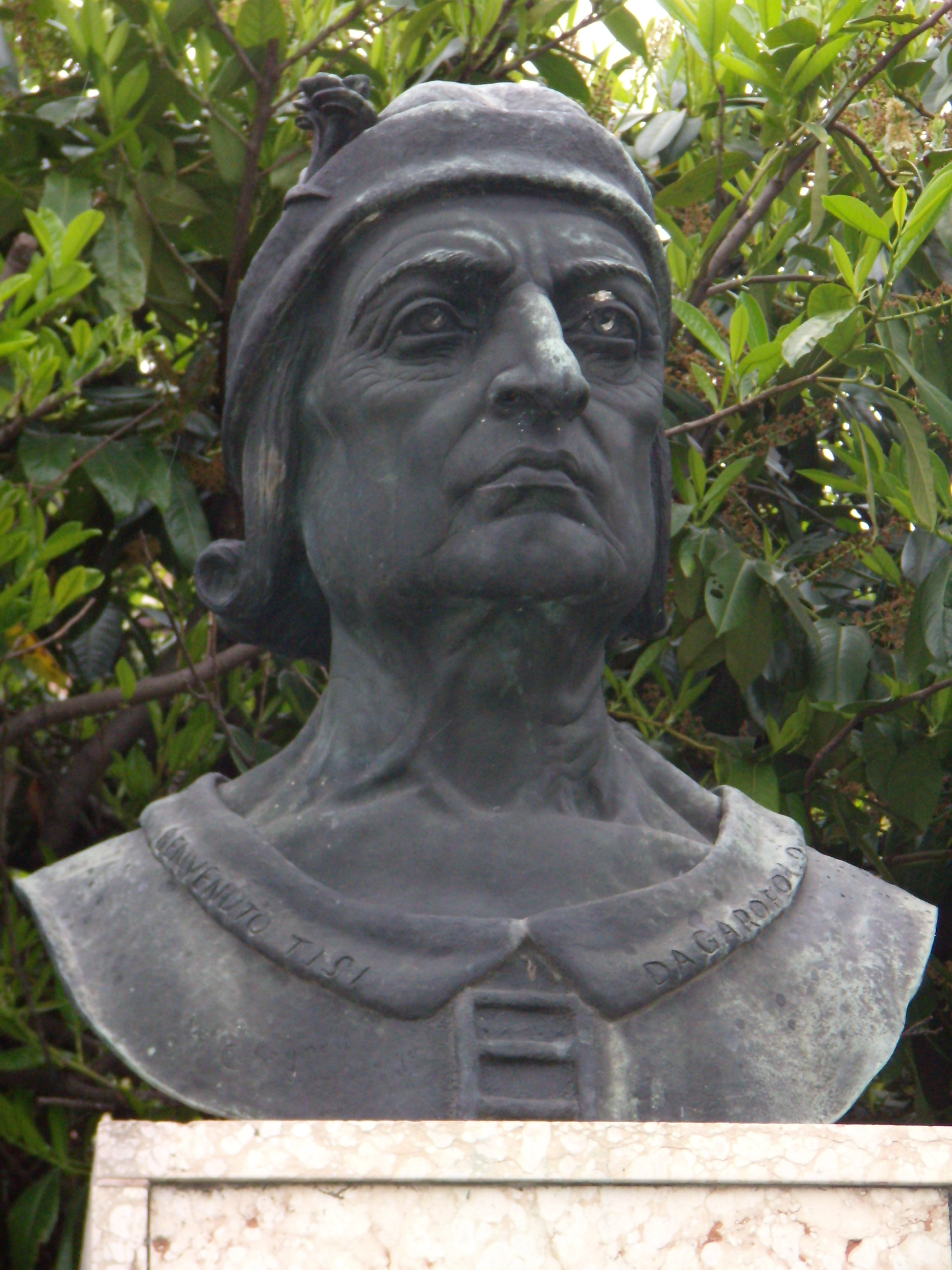 Monument to Benvenuto Tisi da Garofalo, Rovigo, Italy